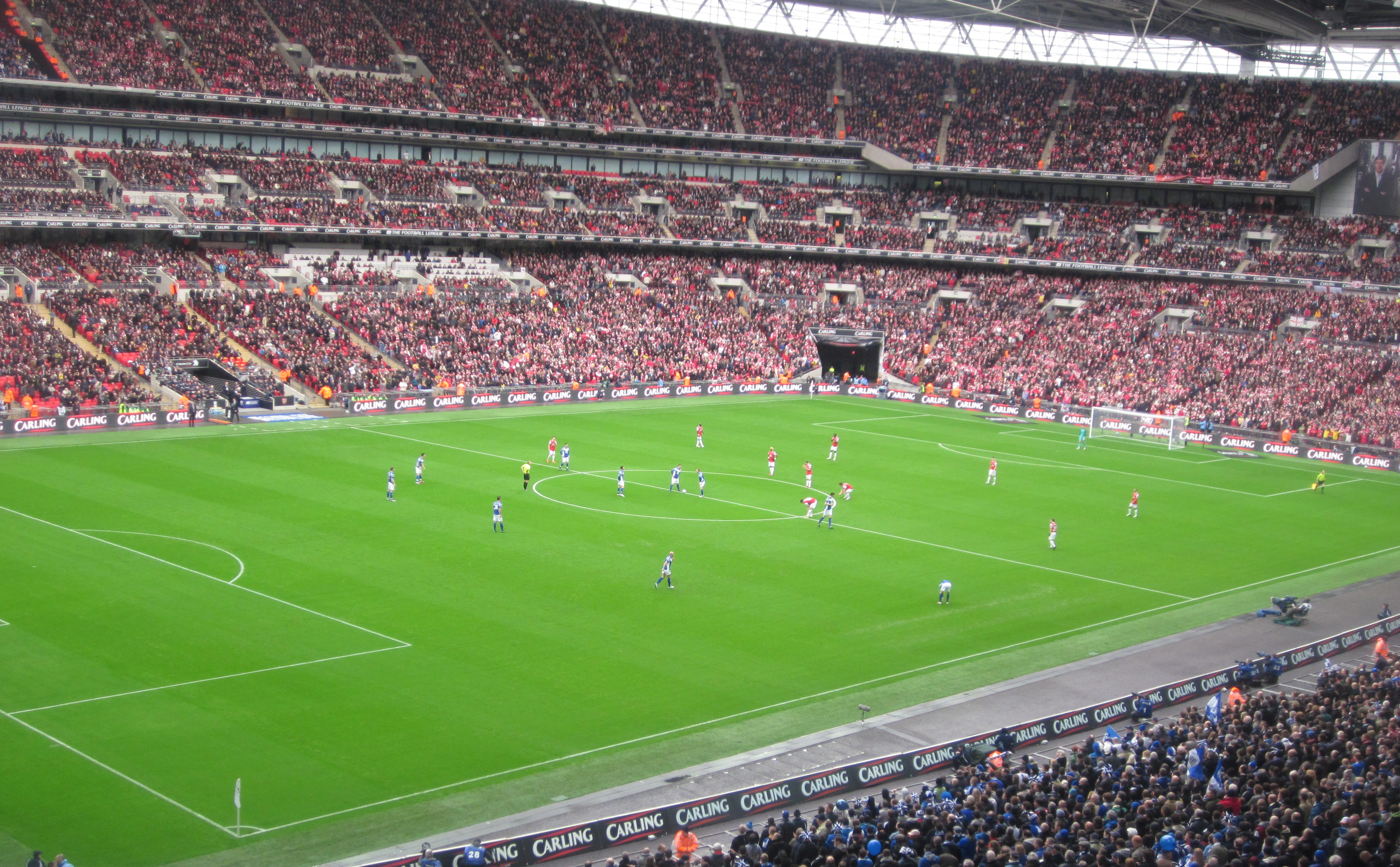 Image of kick-off before the 2011 Football League Cup Final